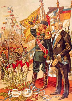 A popular design distributed by a firm (Great Stores of Le Bon Marché) during and after the visit Nicolas II to France, to help French people to understand the reason of the visit (l'alliance franco-russe). Motto: Si vis pacem, para bellum